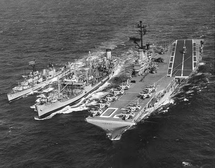 The U.S. anti-submarine aircraft carrier USS Bennington (CVS-20) refueling at sea from the fleet oiler USS Mispillion (AO-105), 20 August 1963. The destroyer USS Alfred A. Cunningham (DD-752) is taking on fuel from off the oiler's starboard side. Nine Grumman S-2E Tracker and four Sikorsky SH-3A Sea King helicopters of Carrier Anti-Submarine Air Group 59 (CVSG-59) are visible on Bennington´s flight deck.